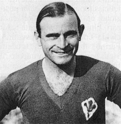 Uruguayan footballer Pedro Petrone Schiavone with A.C. Fiorentina in the early 1930s.